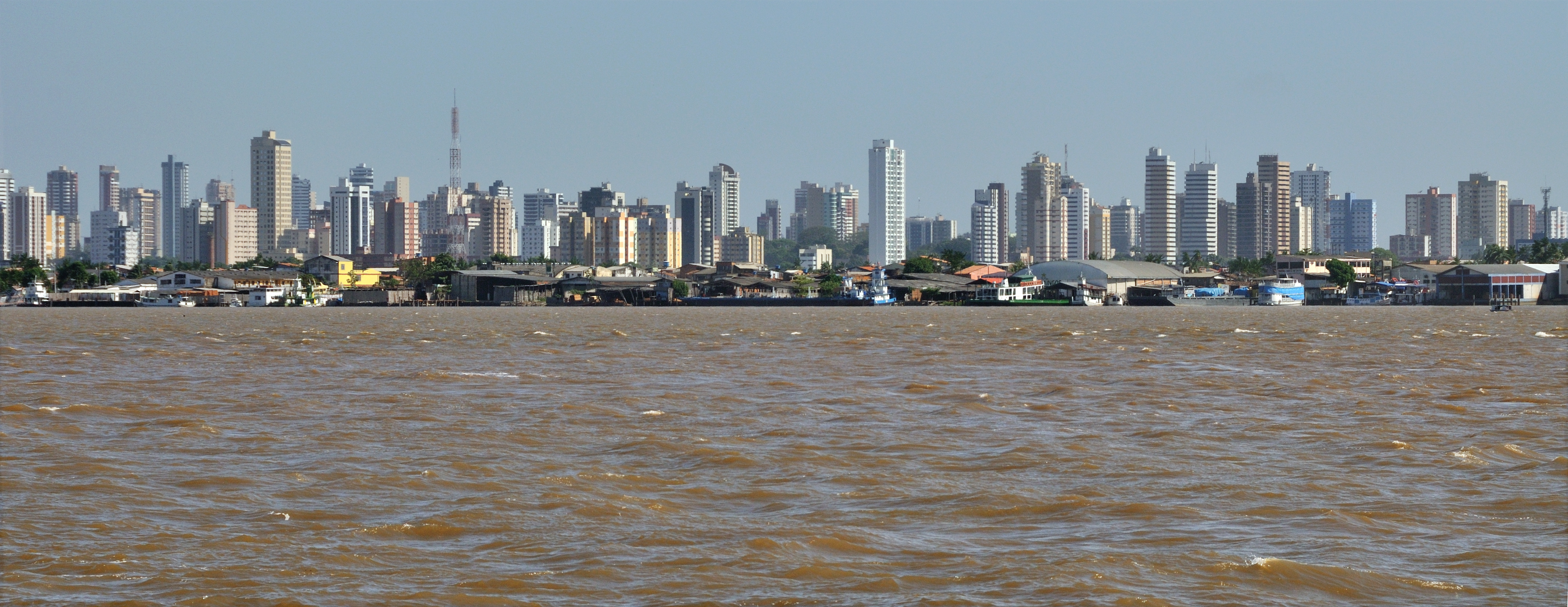 The city of Belém, Brazil, seen from a boat on the river Guamá, in the SE of the city.